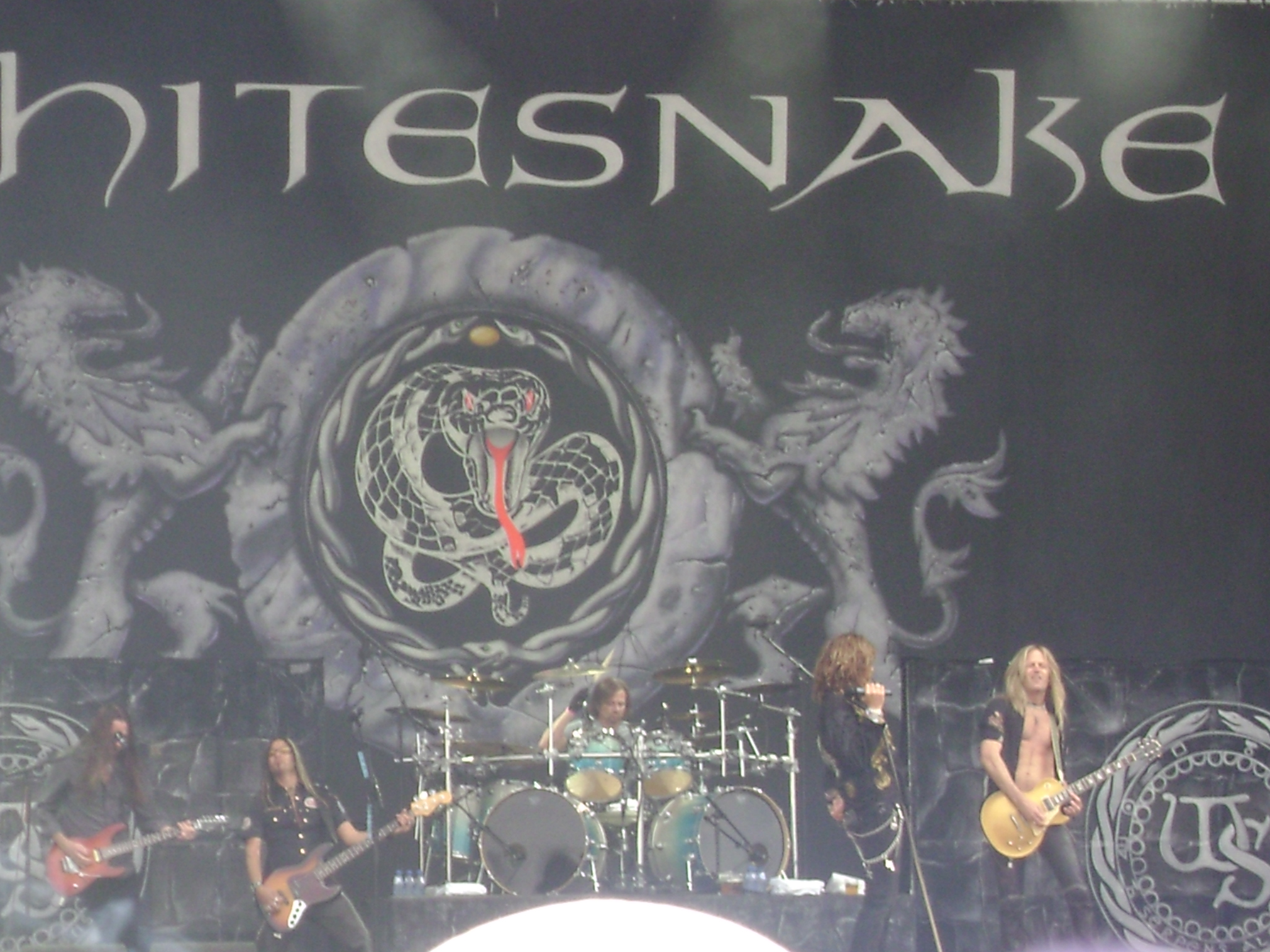 Whitesnake performing on the Arrow Rock Festival 2008, in Nijmegen, Holland.